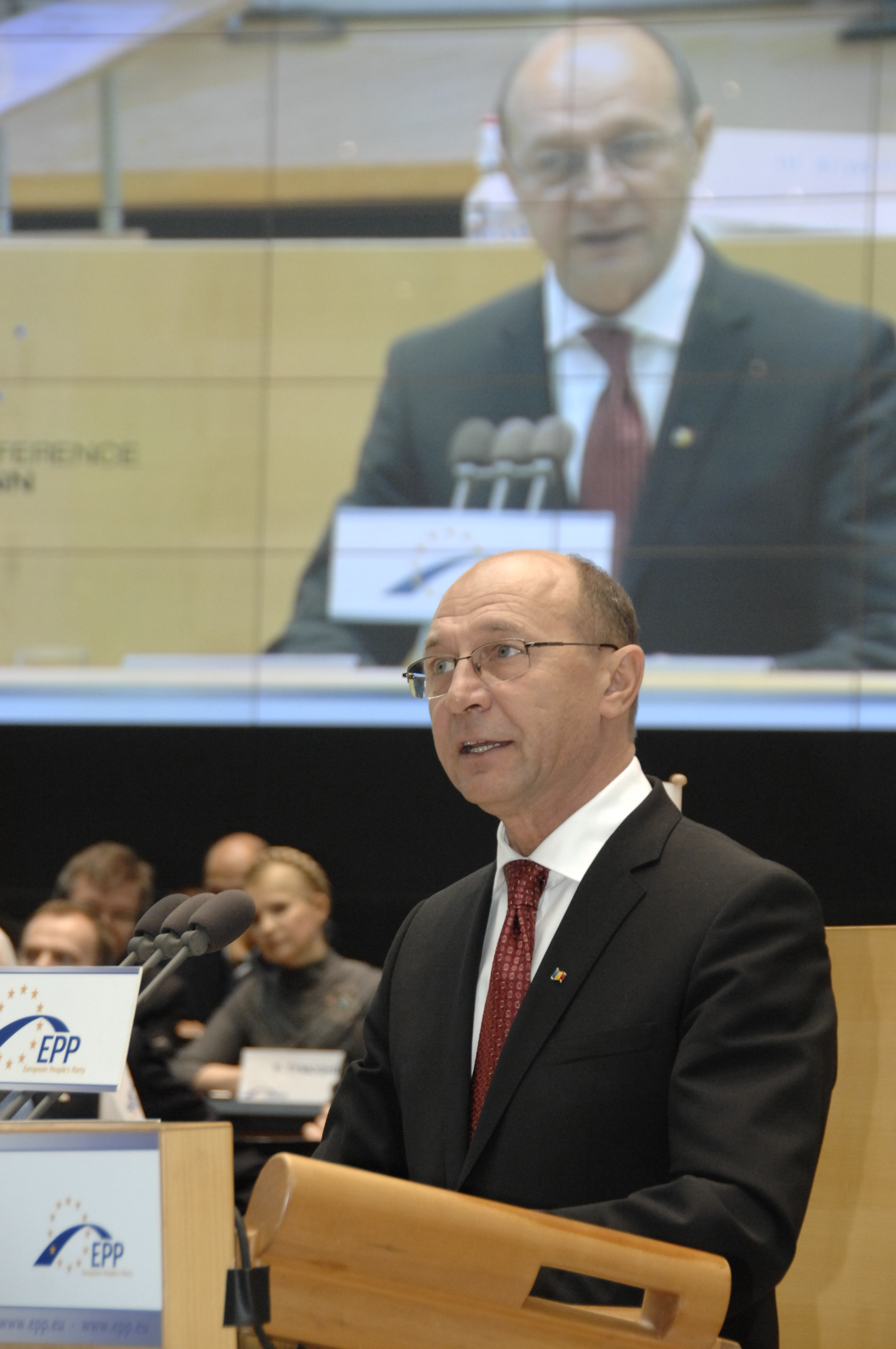 EPP Congress Bonn